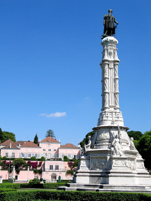 Monument to Afonso de Albuquerque (with Belém Palace in the background)